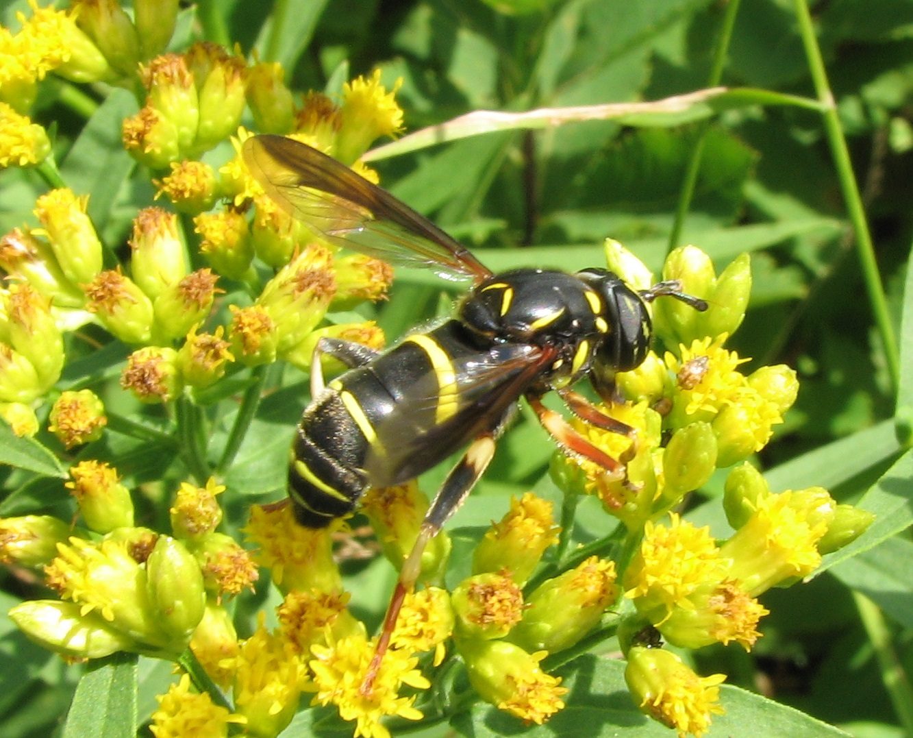 Syrphid fly, Spilomyia sayi on goldenrod. Schoodic Point, Acadia National Park, Hancock County, Maine, USA.